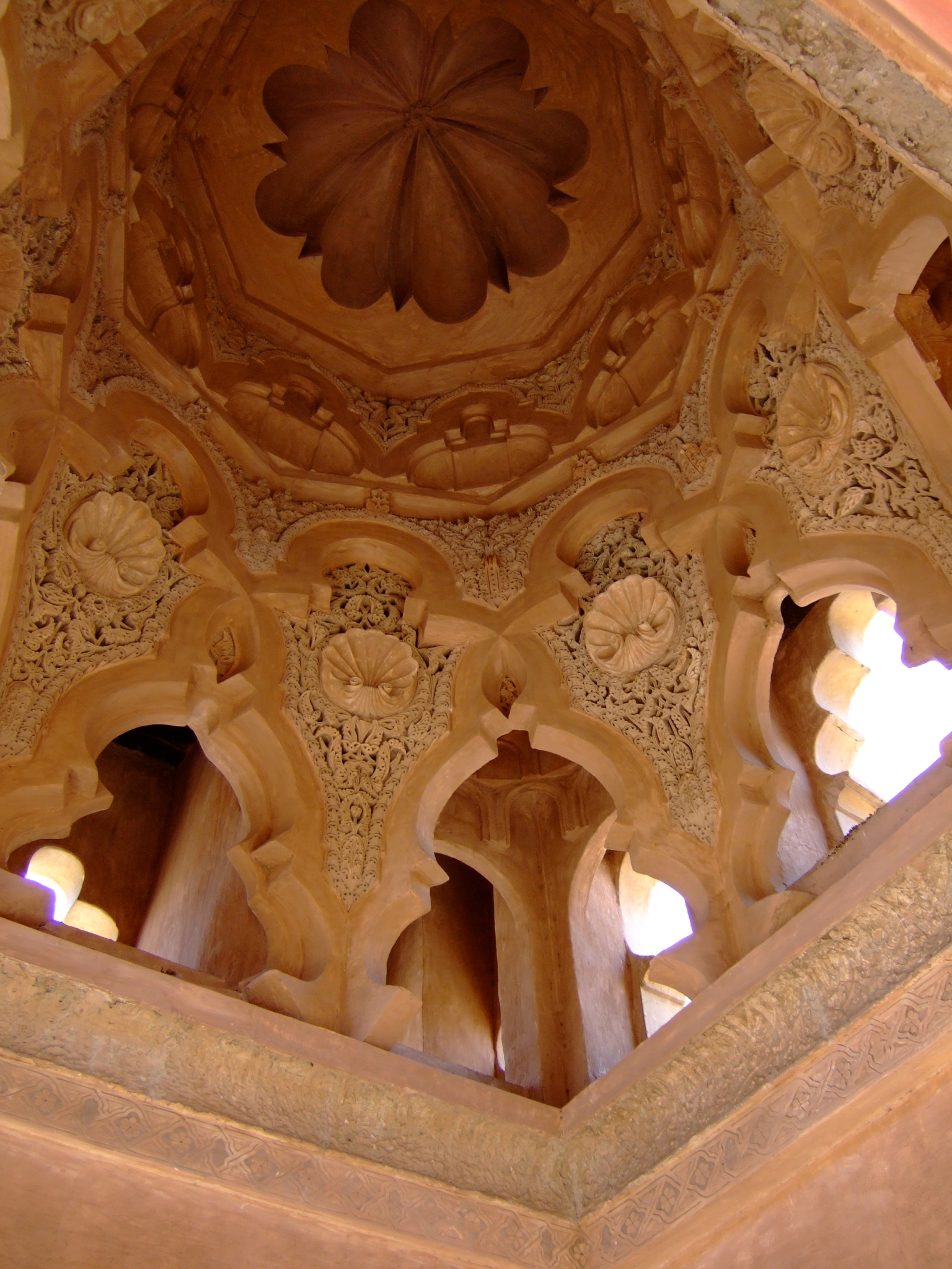 Almoravids'Koubba near the Medersa Ben Youssef, Marrakech, Morocco. Details of the ceiling